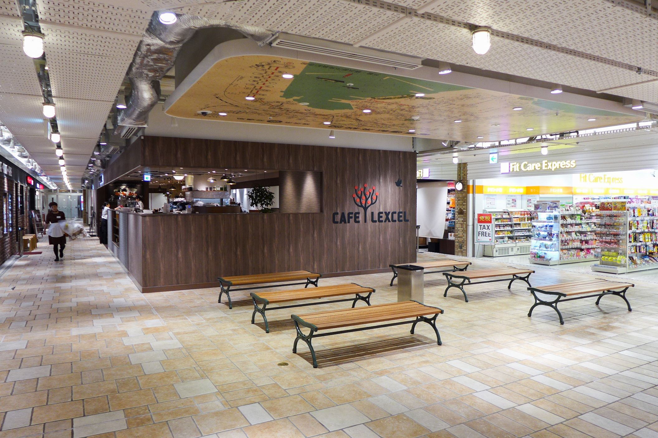 Sakuragicho Station CIAL interior